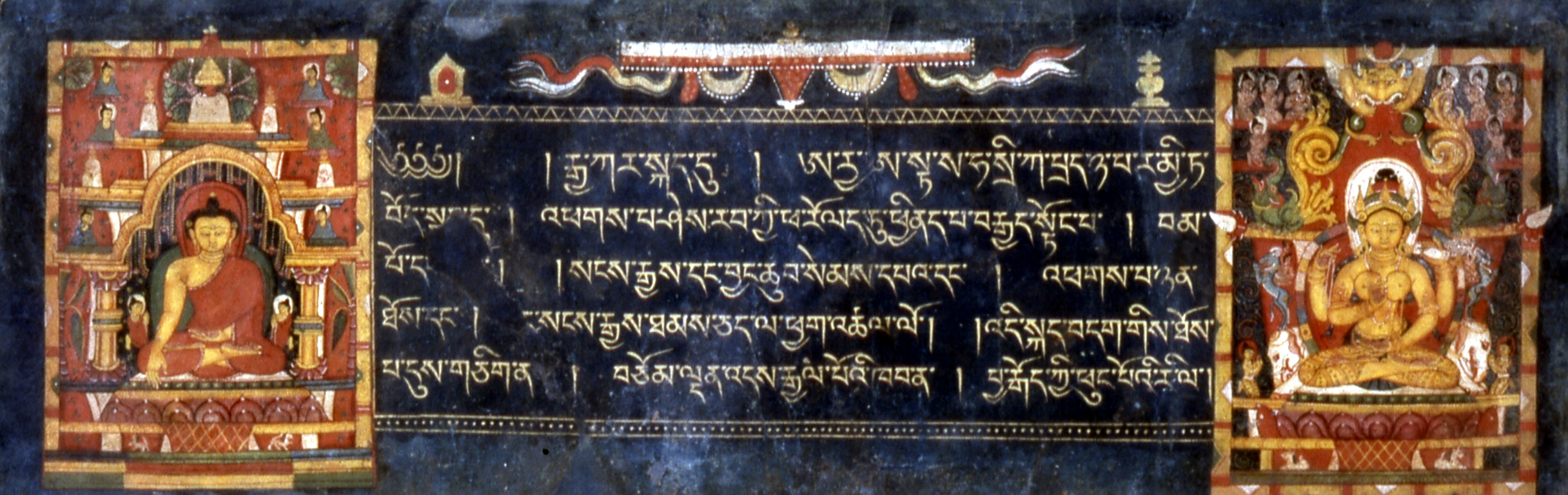 This is a leaf from a "Prajnaparamita" (Perfection of Wisdom) manuscript. The text, written in Tibetan language and script, is a translation of a Sanskrit text that was produced in India as much as a thousand years earlier. The translation of hundreds and hundreds of texts into Tibetan was an immense cultural achievement. On the left appears the Buddha Shakyamuni on the night of his enlightenment at Bodhgaya. The tree under which he was enlightened appears above the temple. The goddess at right is Prajnaparamita, a personification of the text or an embodiment of its words. This is the first leaf. The last leaf includes a statement that this sacred object was commissioned by two children for the use of their parents, following their rebirth on earth.